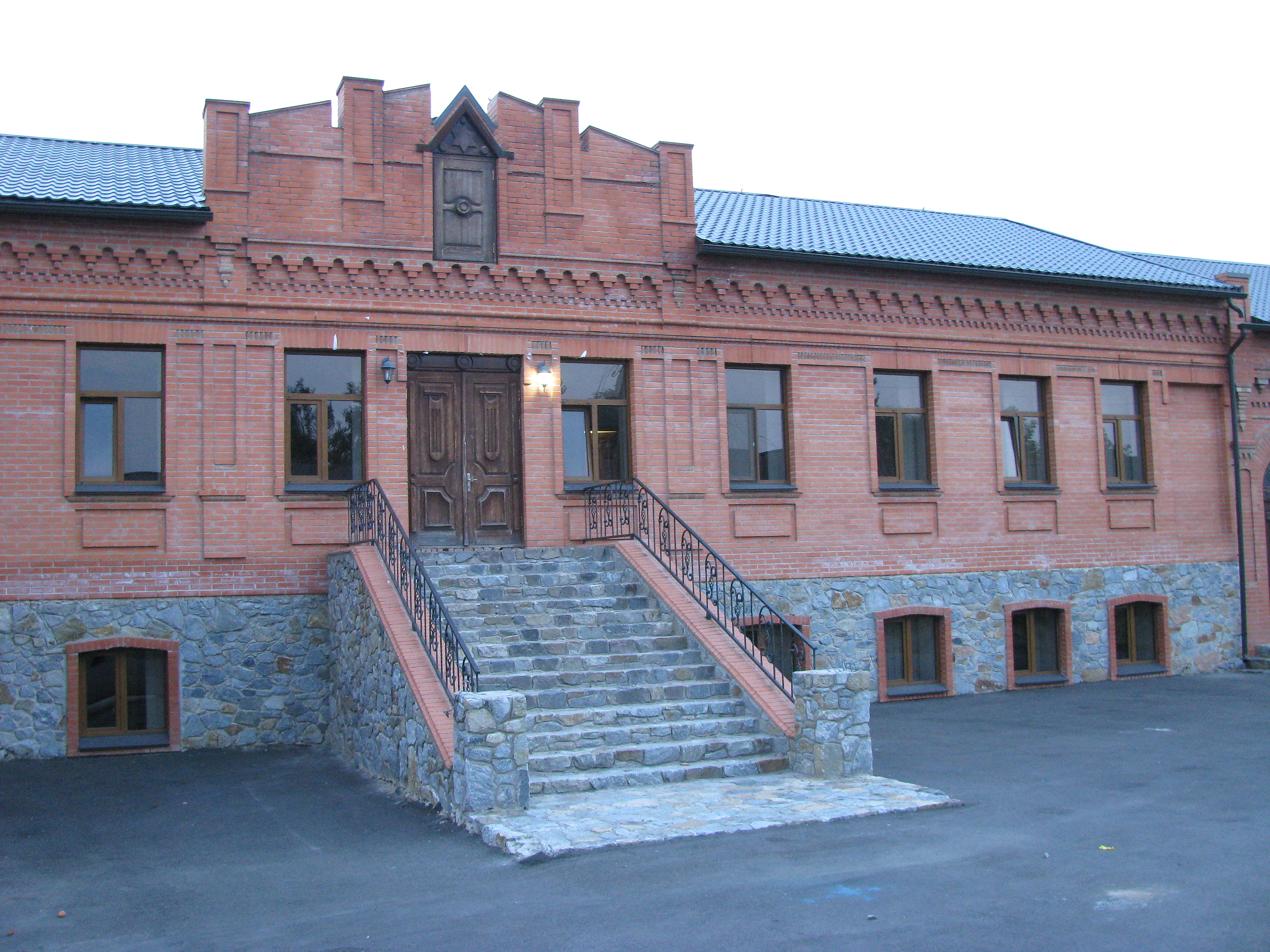 The restored Skver Beis Hamedrash in Skvyra, Ukraine